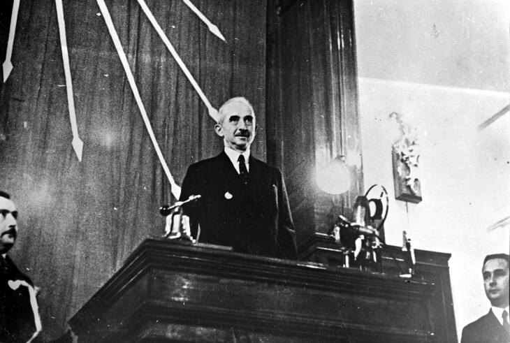 İsmet İnönü at the congress of the Republican People's Party, in late 1930s.